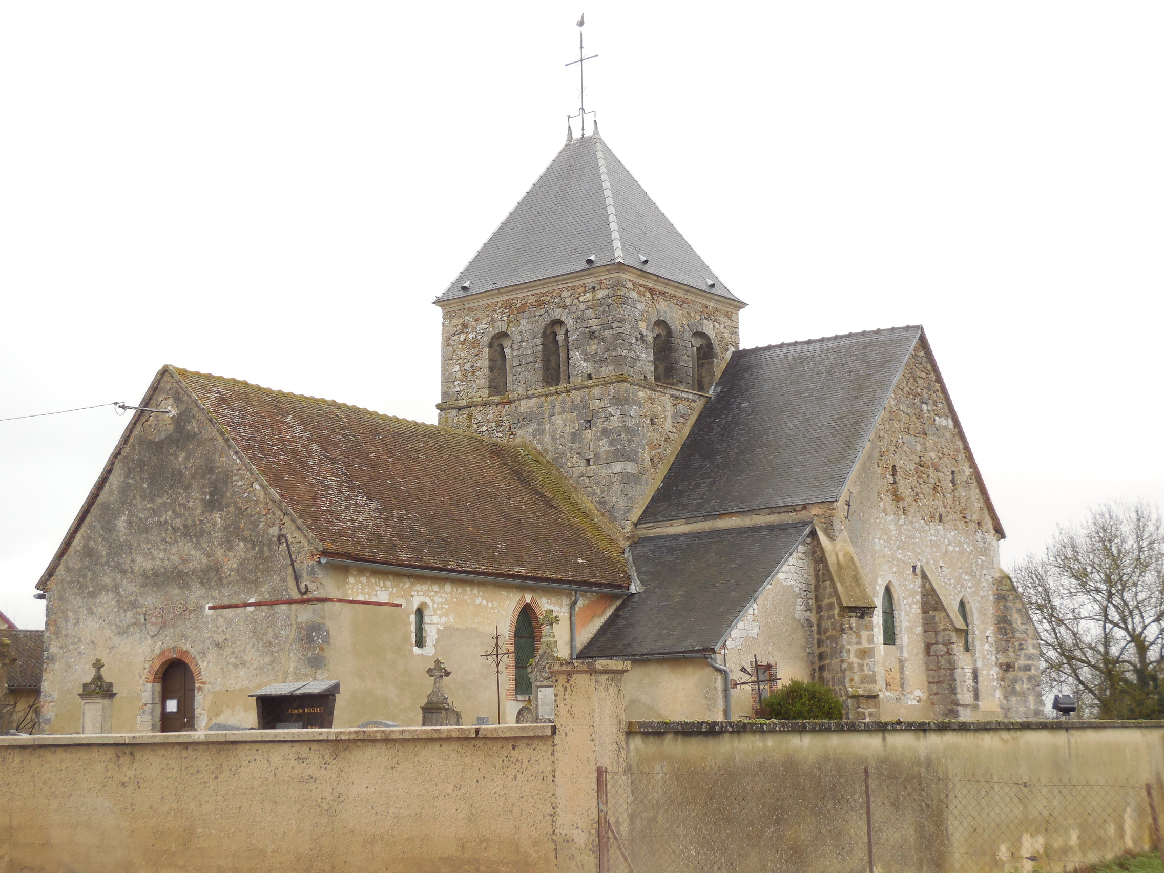 Saint-Lawrence Church of Marigny (Marne, France)